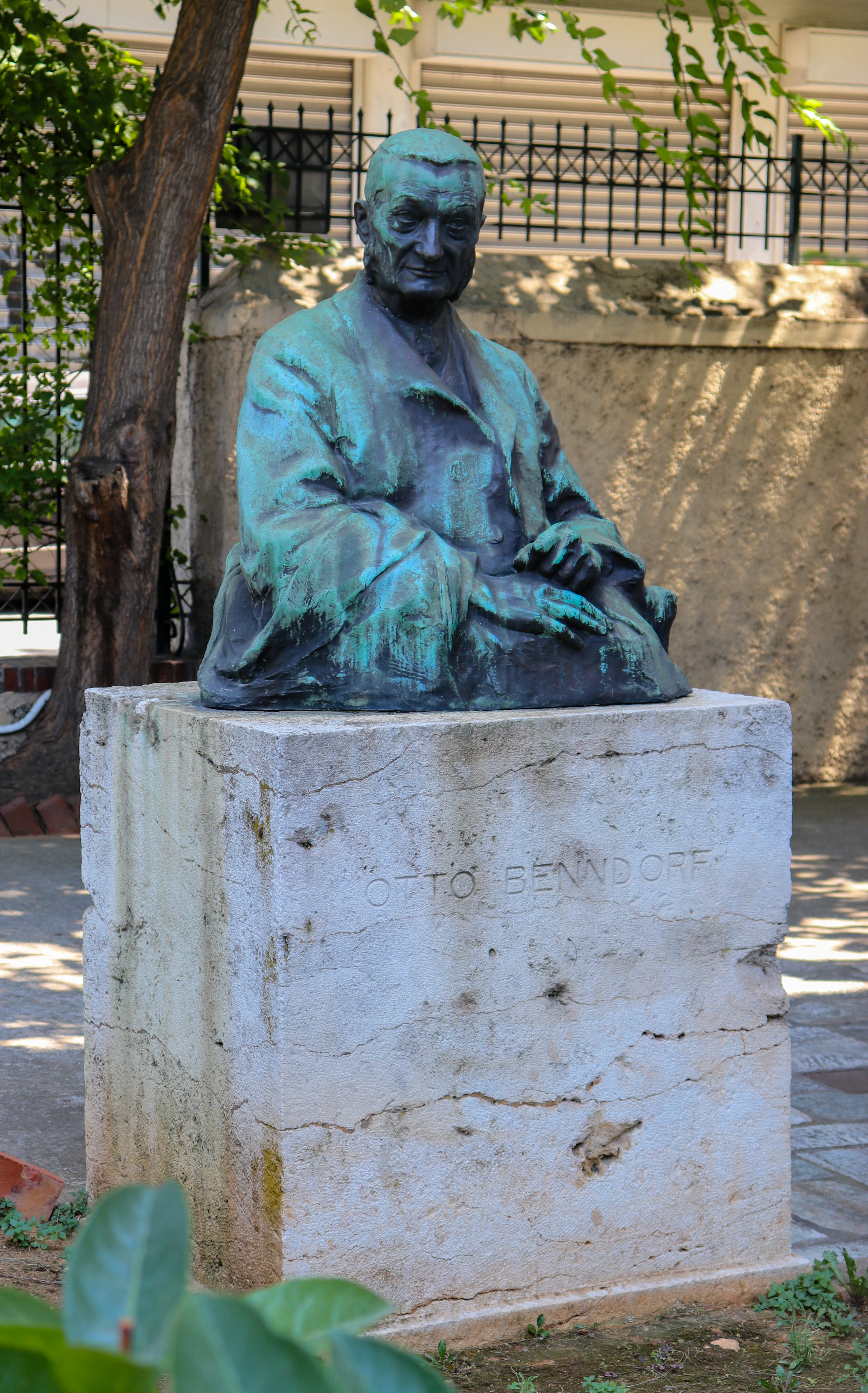 Austrian sculptor Hella Unger (1875-1932). Monument of Austrian archeologist Otto Benndorf (1838-1907) in Athens, Greece.